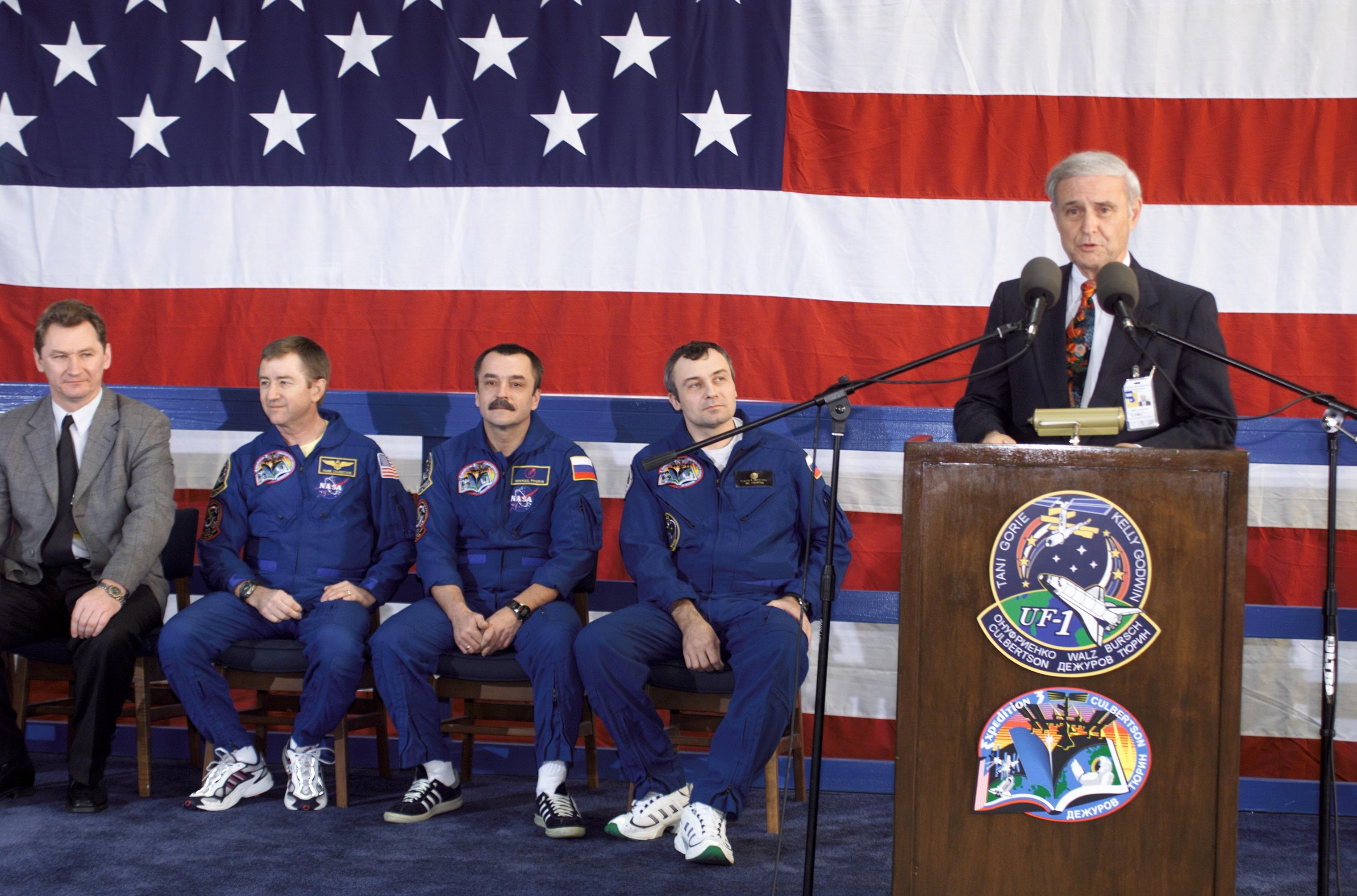 Johnson Space Center Acting Director Roy Estess (right) greets the Expedition 3 and STS-108 crews during return ceremonies. Seated (from left) are Nikolai Zubov, Deputy Director for Logistics and Procurement, Gagarin Cosmonaut Training Center, Star City, Russia; Expedition 3 commander Frank Culbertson and Expedition 3 flight engineers Mikhail Tyurin and Vladimir N. Dezhurov.